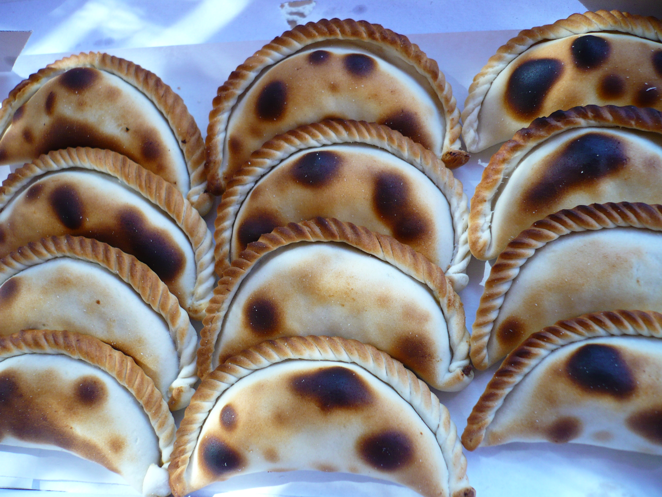 empanadas